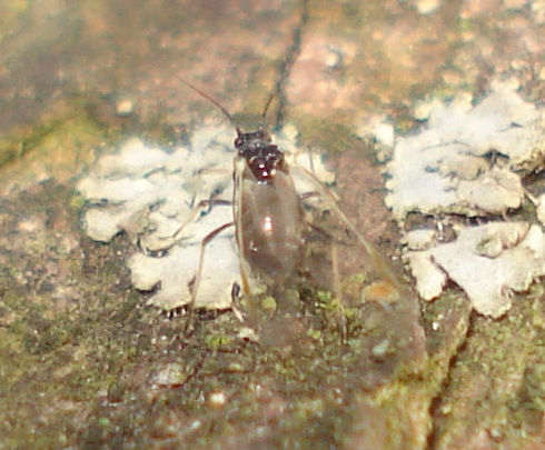 Black bean aphid (Aphis fabae)